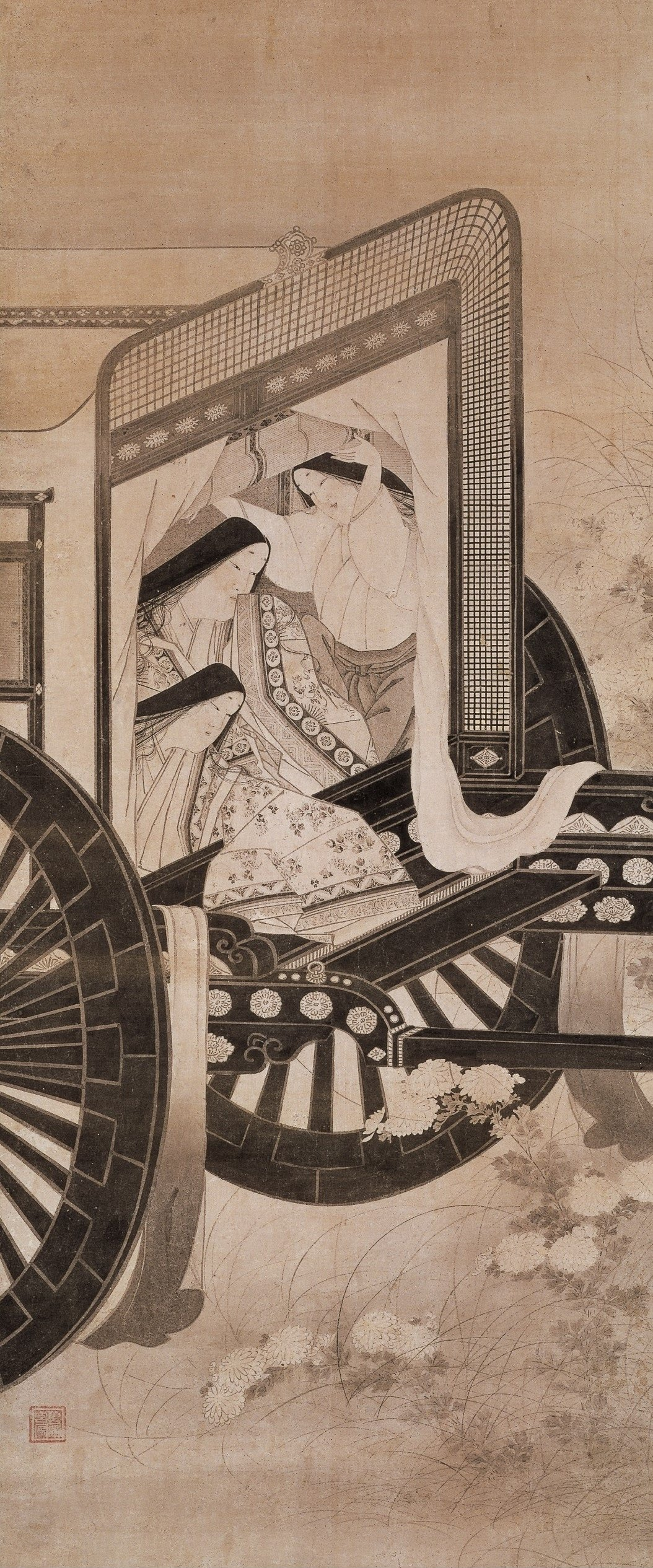 "Court Lady Enjoying Wayside Chrysanthemums" by Japanese artist Iwasa Matabei. 17th century. Hanging scroll, ink and color on paper, 132 x 55 cm. Yamatane Museum of Art, Tokyo.